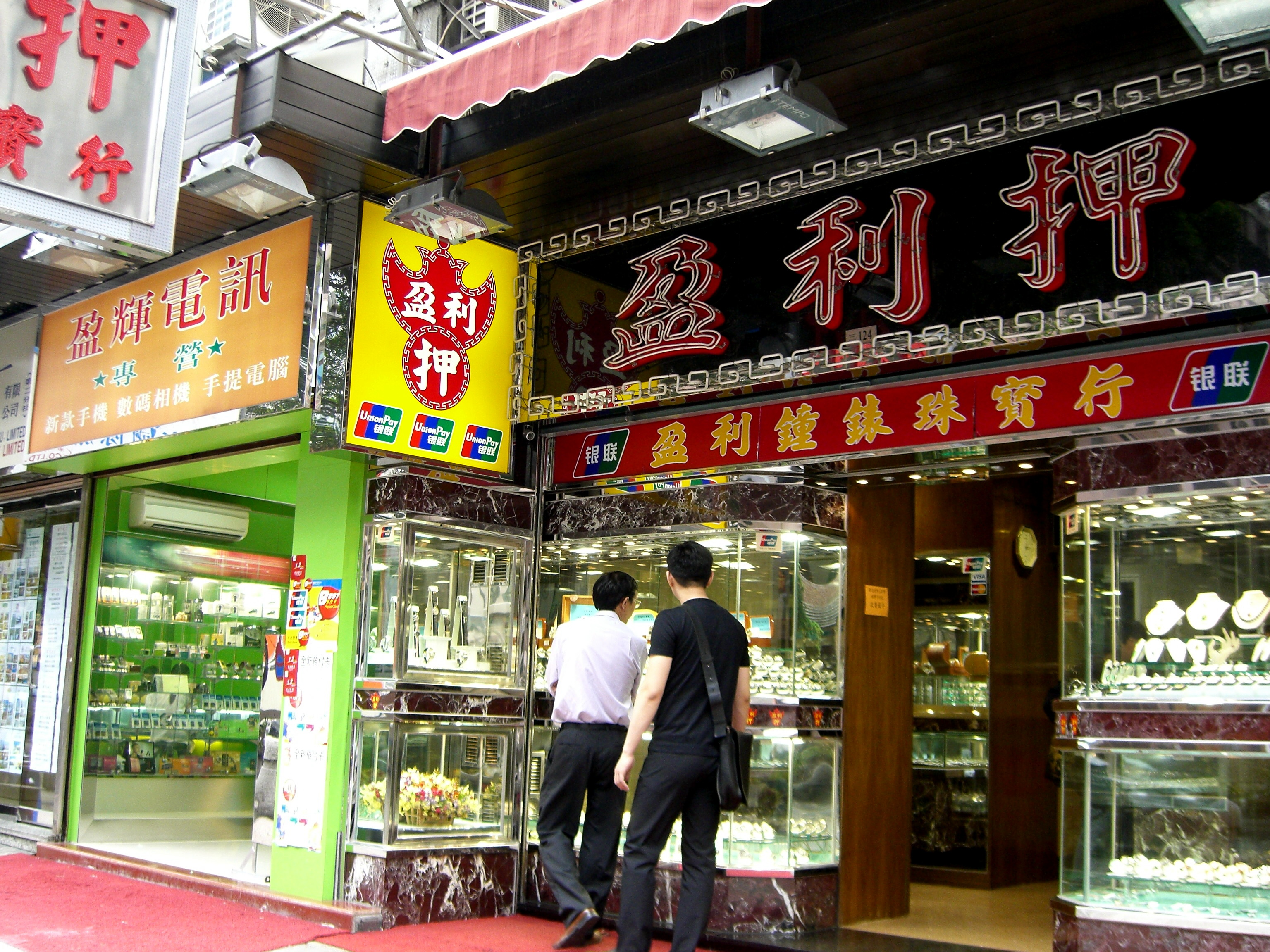 Ying Lei Pawnshop in Macau